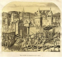 This is a thumbnail reproduction of "The Earl of Haynault takes and destroys Aubenton" etched by J.Harris(?), published in London by Longman, Hurst, Rees, And Orme in Jean Froissart's Chronicles of England, France, Spain ..., 1805. This image is available with a better format or dpi at Ancestry Images with the link